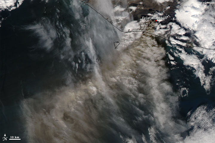 Eyjafjallajokull